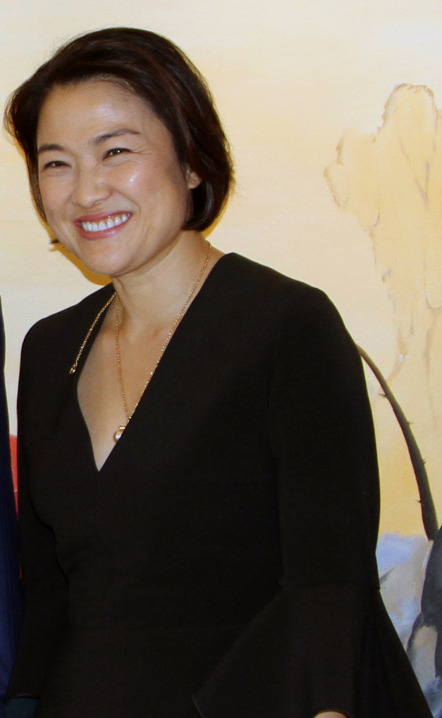 Zhang Xin, CEO of SOHO China, with Ambassador Terry Branstad on December 6, 2017 中文（中国大陆）: 张欣与美国驻华大使泰里·布兰斯塔德的合影，摄于2017年12月6日